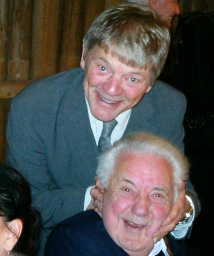 Swedish actors Bosse Parnevik and Bert-Åke VargPlace: Siggesta gård, Varmdö, Sweden